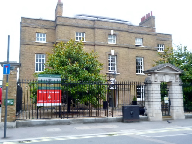 HQ Westminster Dragoon Squadron, Fulham High Street SW6